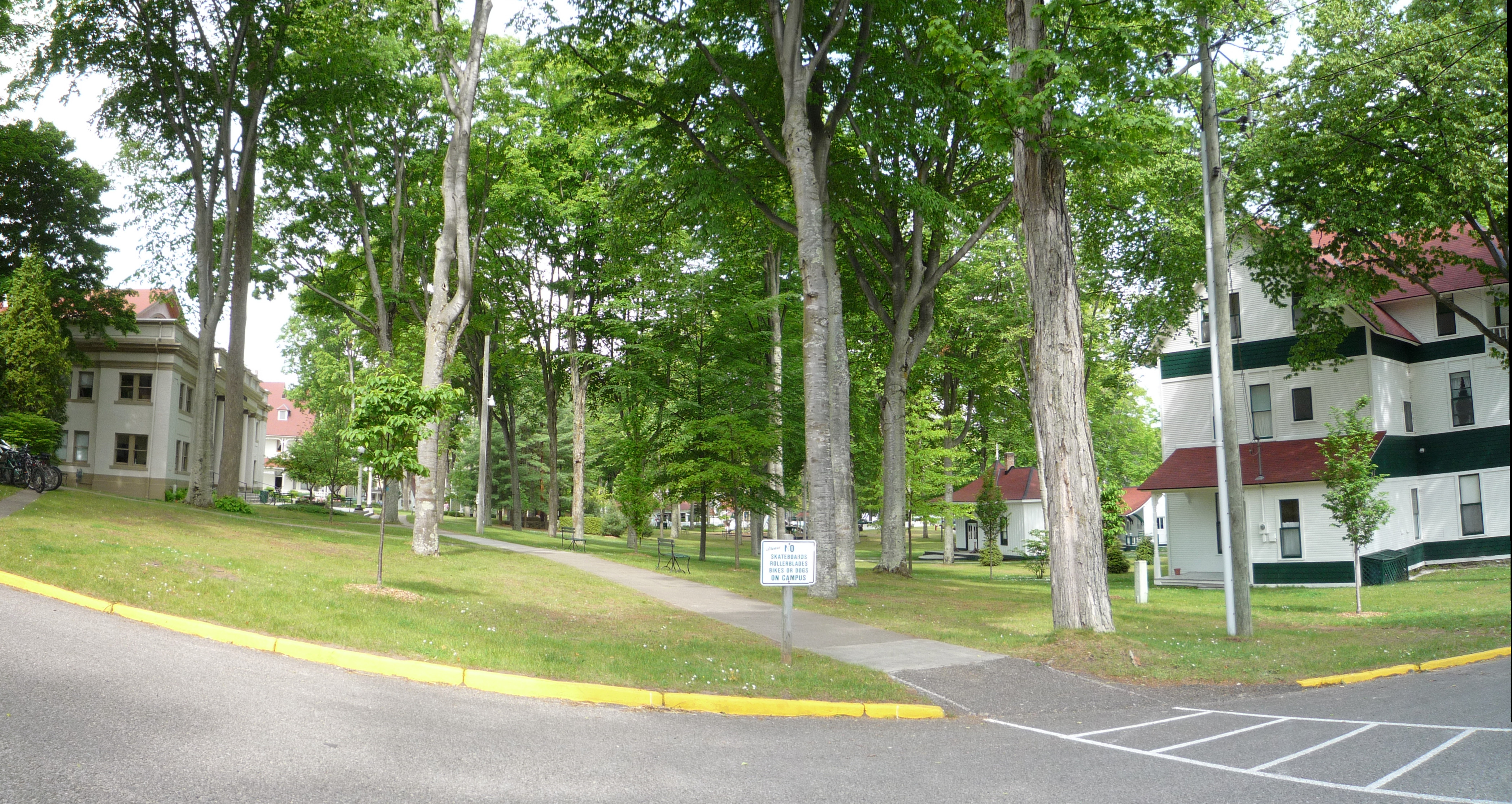 Association Grounds, Bay View, Michigan, USA. Founded in 1875, Bay View is a religious resort community, an early version of a middle-to-upper class American resort.